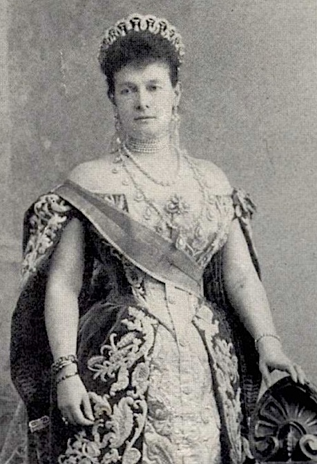 Portrait of Maria Pavlovna of Russia (1854-1920) weraing the Vladimir Tiara, now in the British royal collection. (Queen Elizabeth II Tiara.jpg)